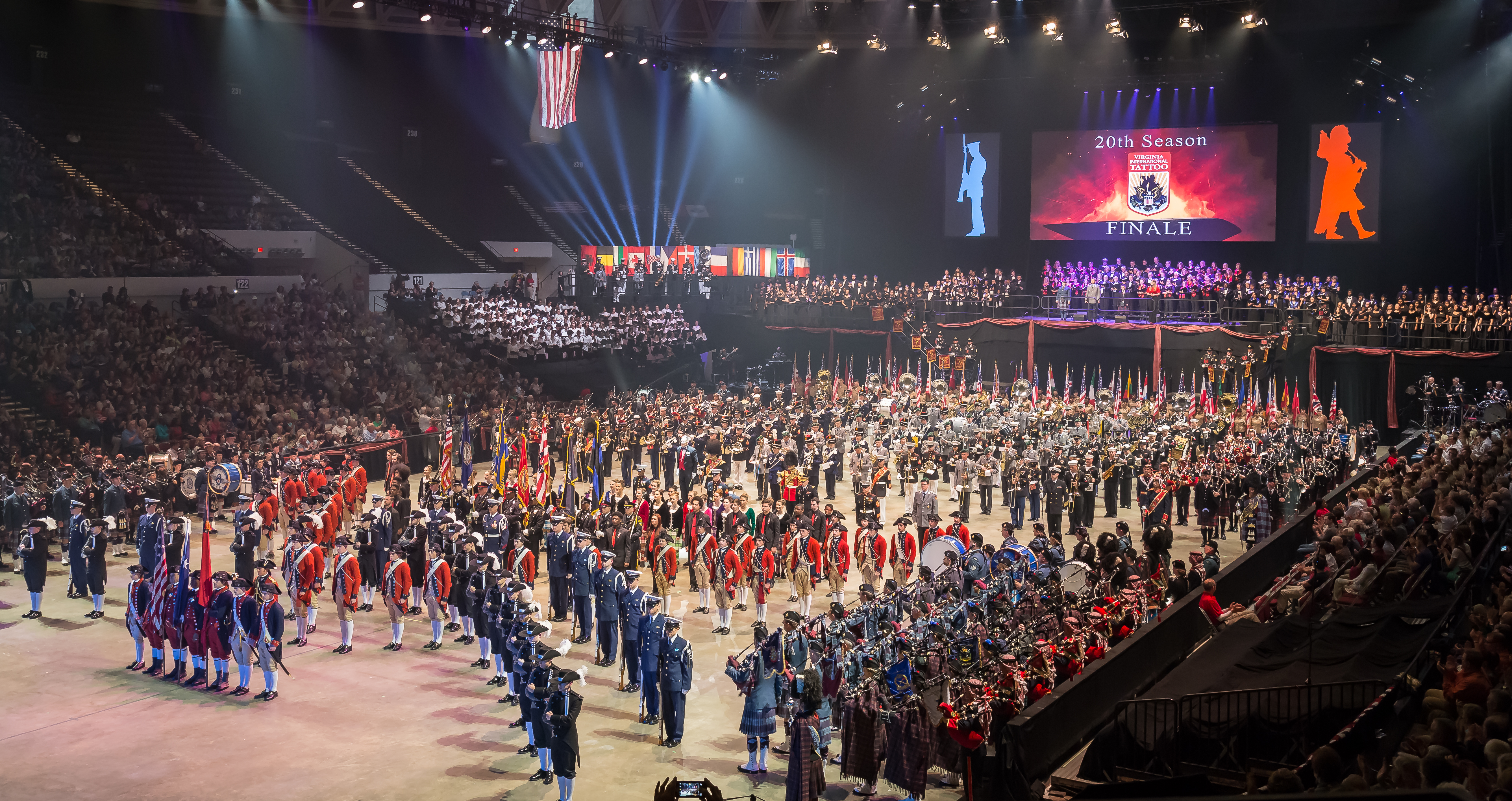 An amazing production, from great local high school kids to world class military bands and singers (from near and far) and...pipes and drums! Did I mention pipes and drums?